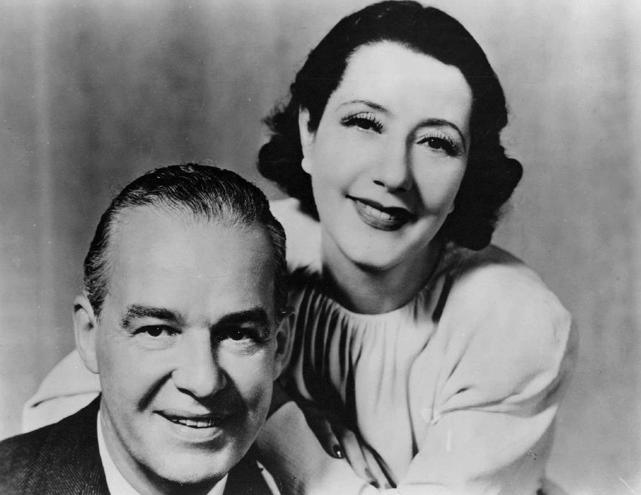 Photo of Alfred Lunt and Lynn Fontanne from the radio program Theatre Guild of the Air. The couple made only one radio appearance a year--to participate in a radio play on this program.